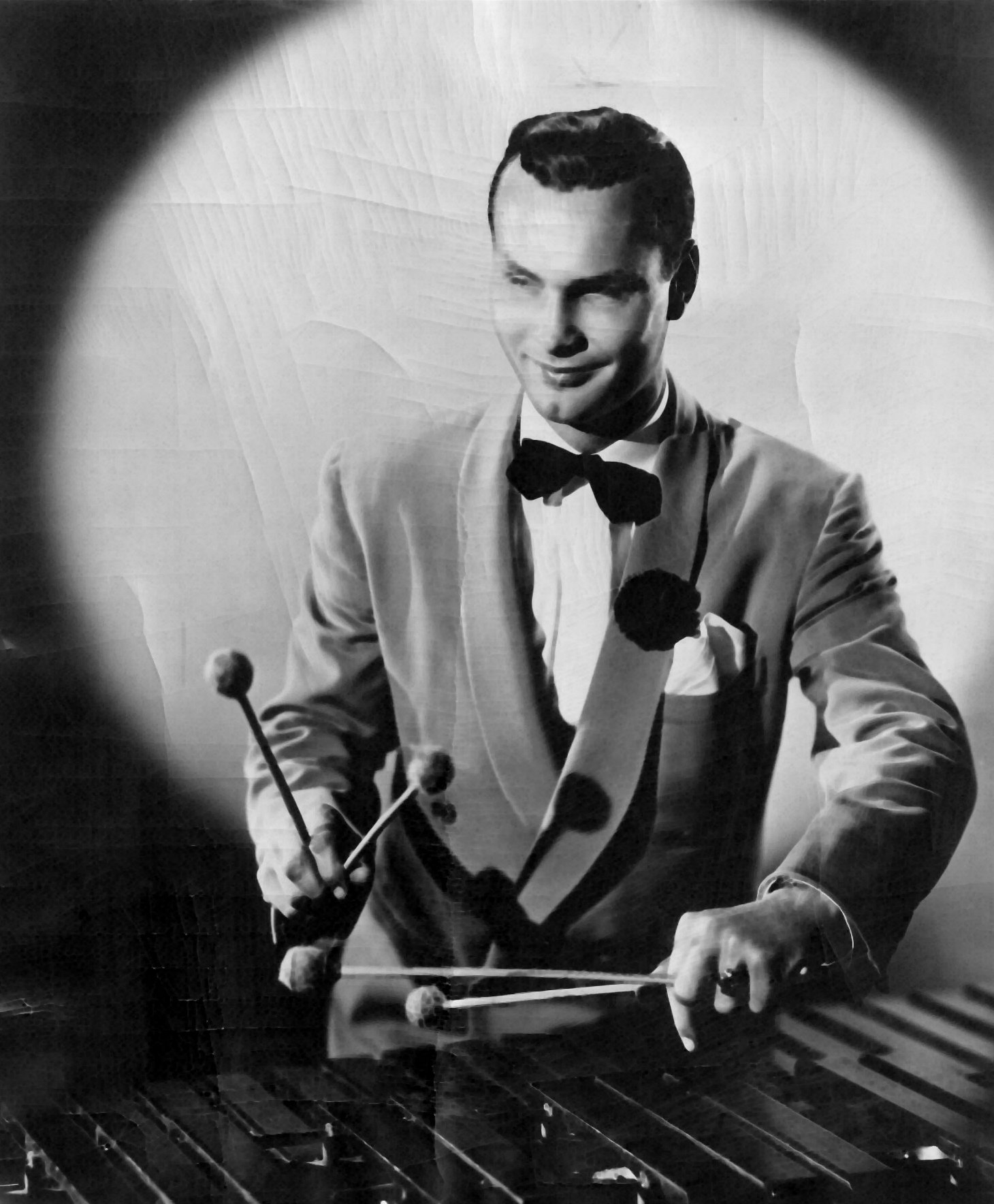 Publicity photo of Pierce Knox, blind marimba player.